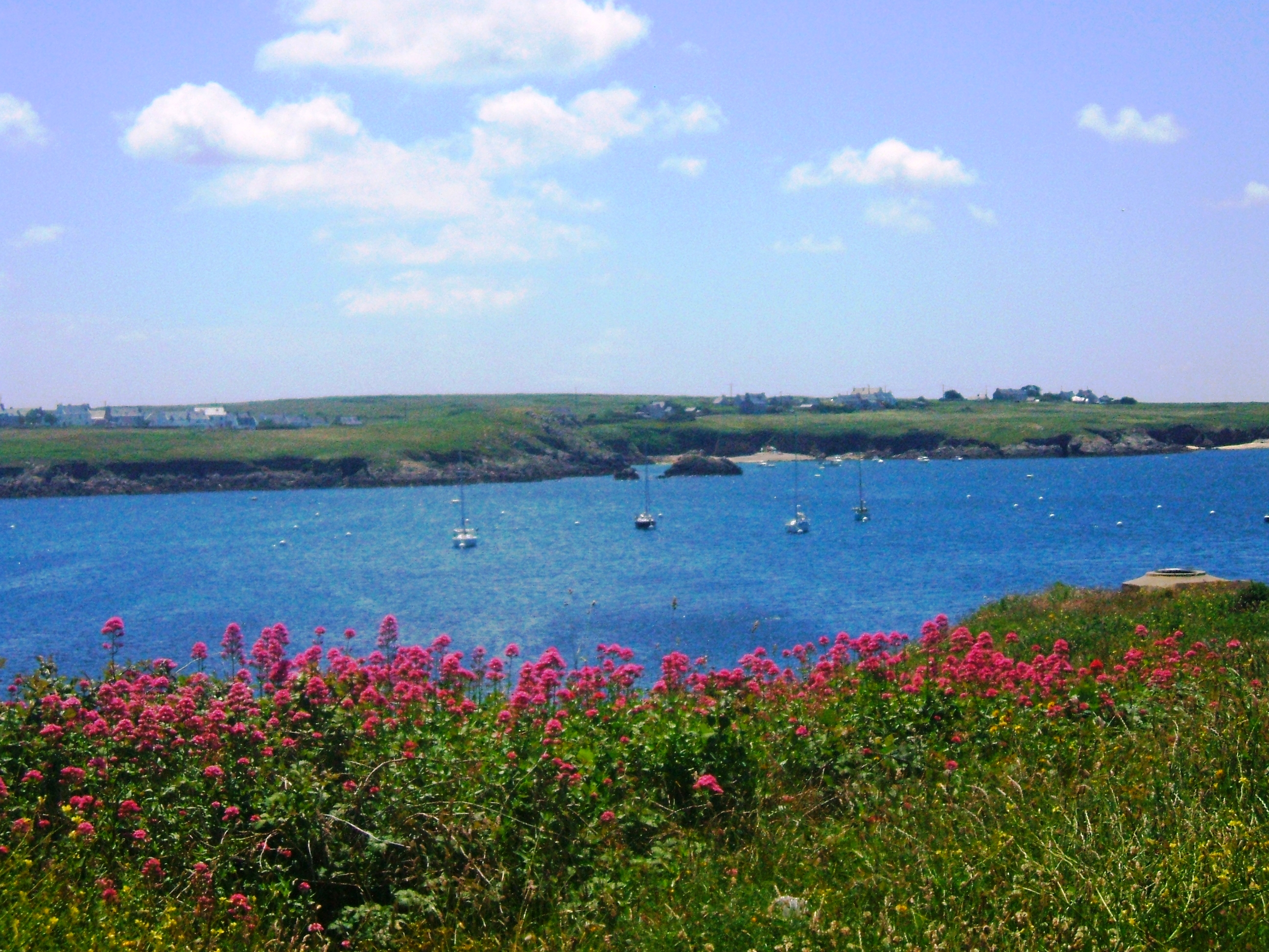 Ushant island